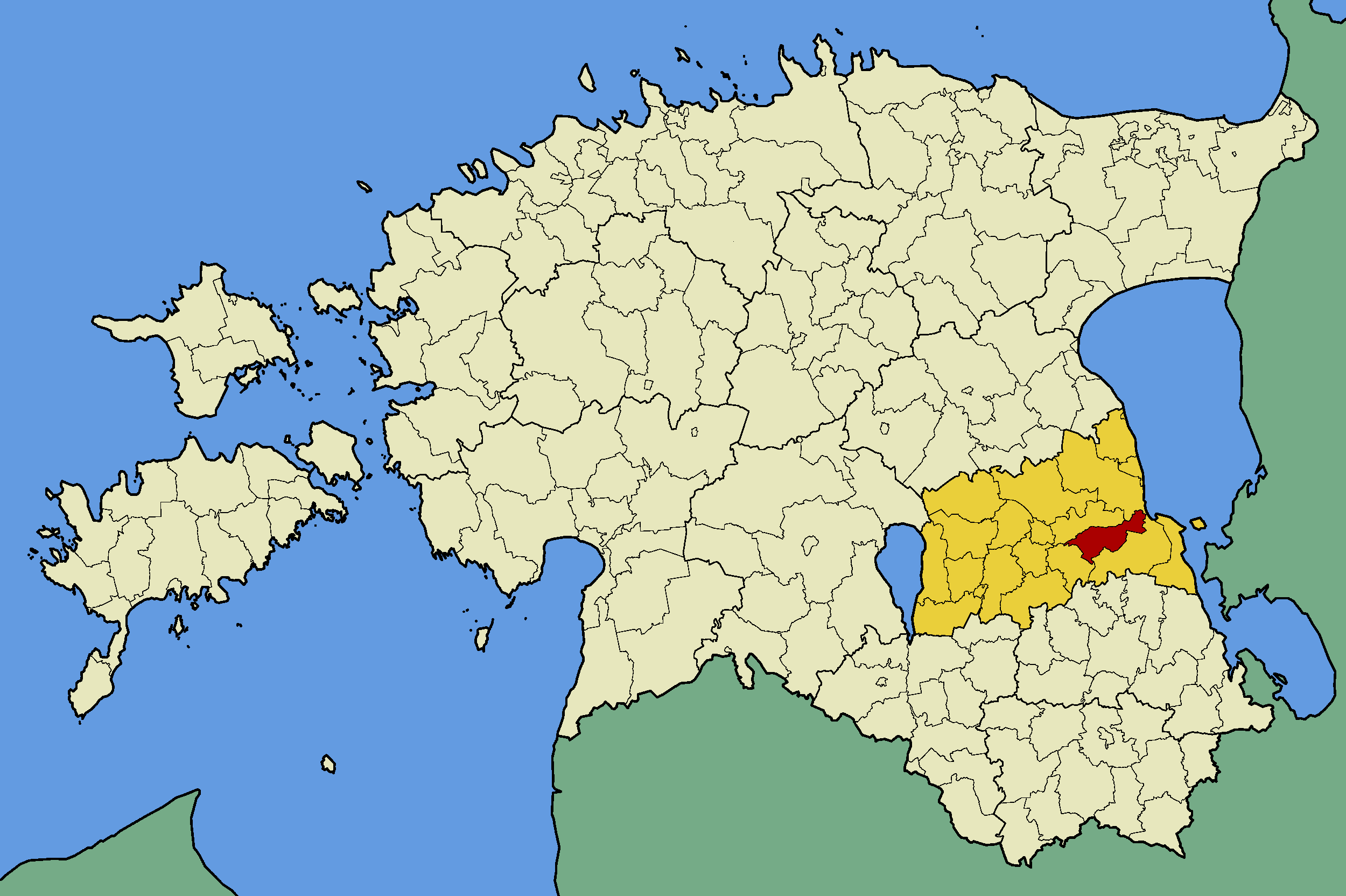 Map of Estonia with borders of municipalities (parishes). Tartu county and Mäksa municipality emphasized.